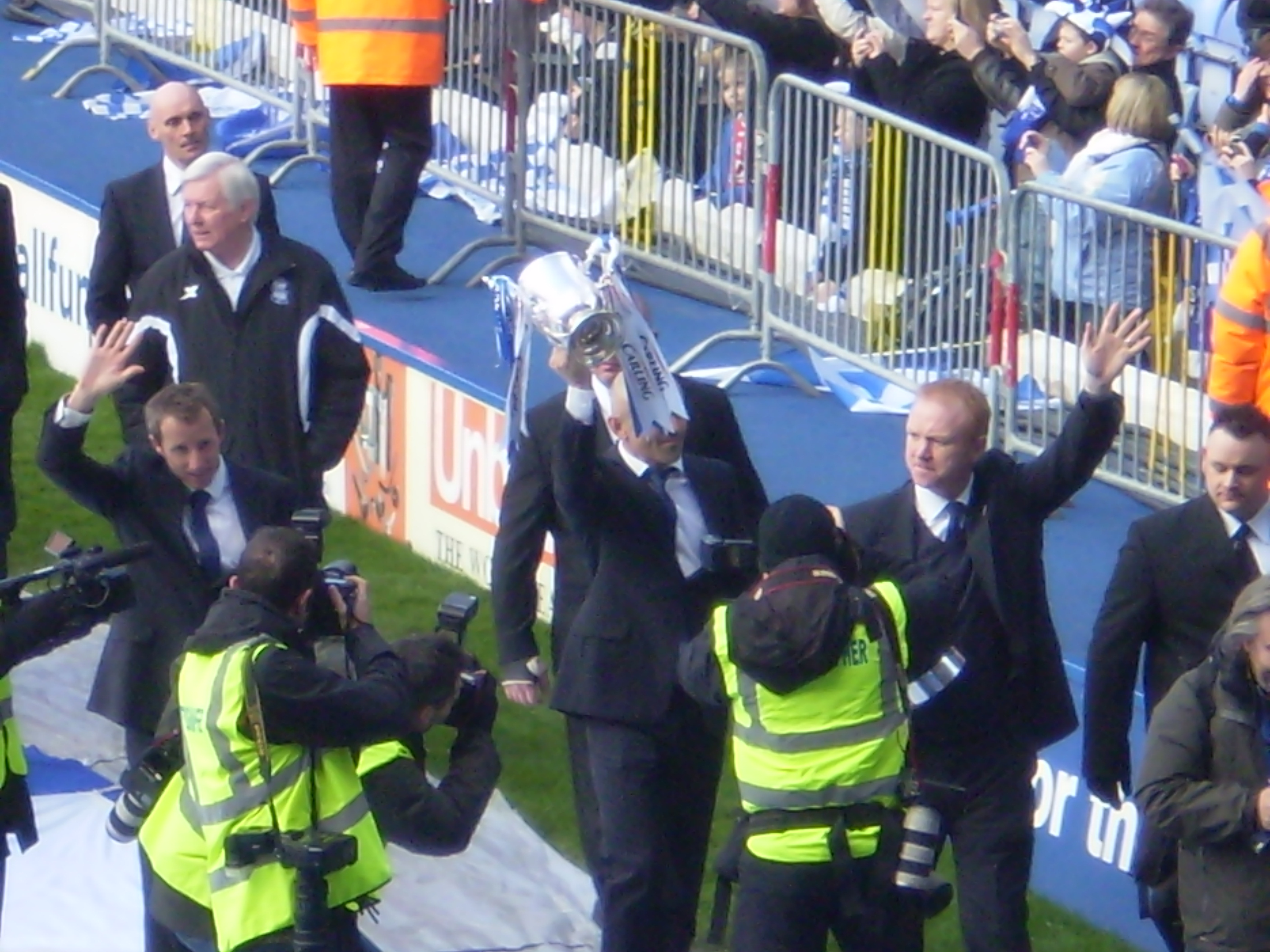 Birmingham City F.C. players Lee Bowyer and captain Stephen Carr with manager Alex McLeish parade the 2011 League Cup in front of fans at their St Andrew's stadium.